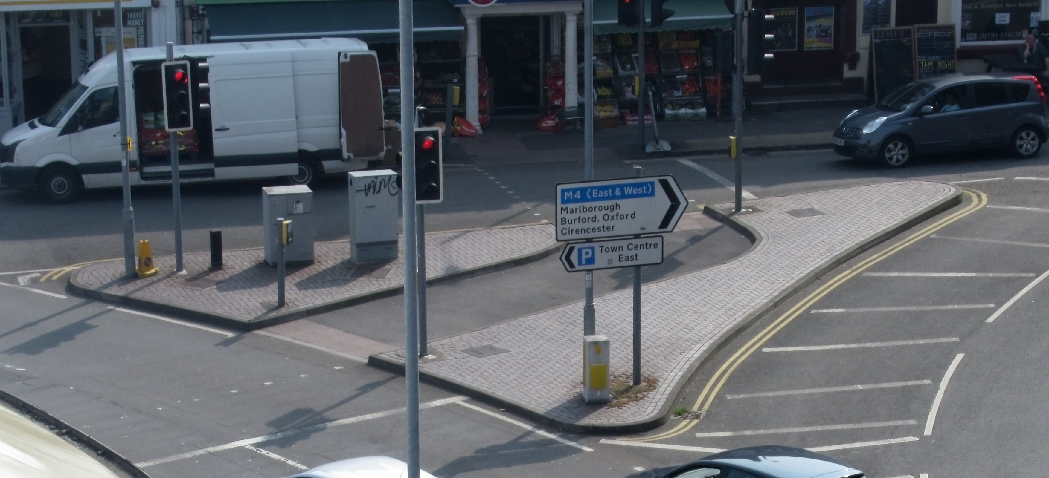 refuge island near the tented market in swindon.